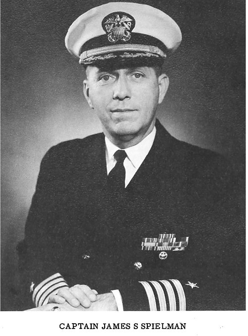 LT James Samuel Spielman, USNR Commanding Officer PC 552-1945